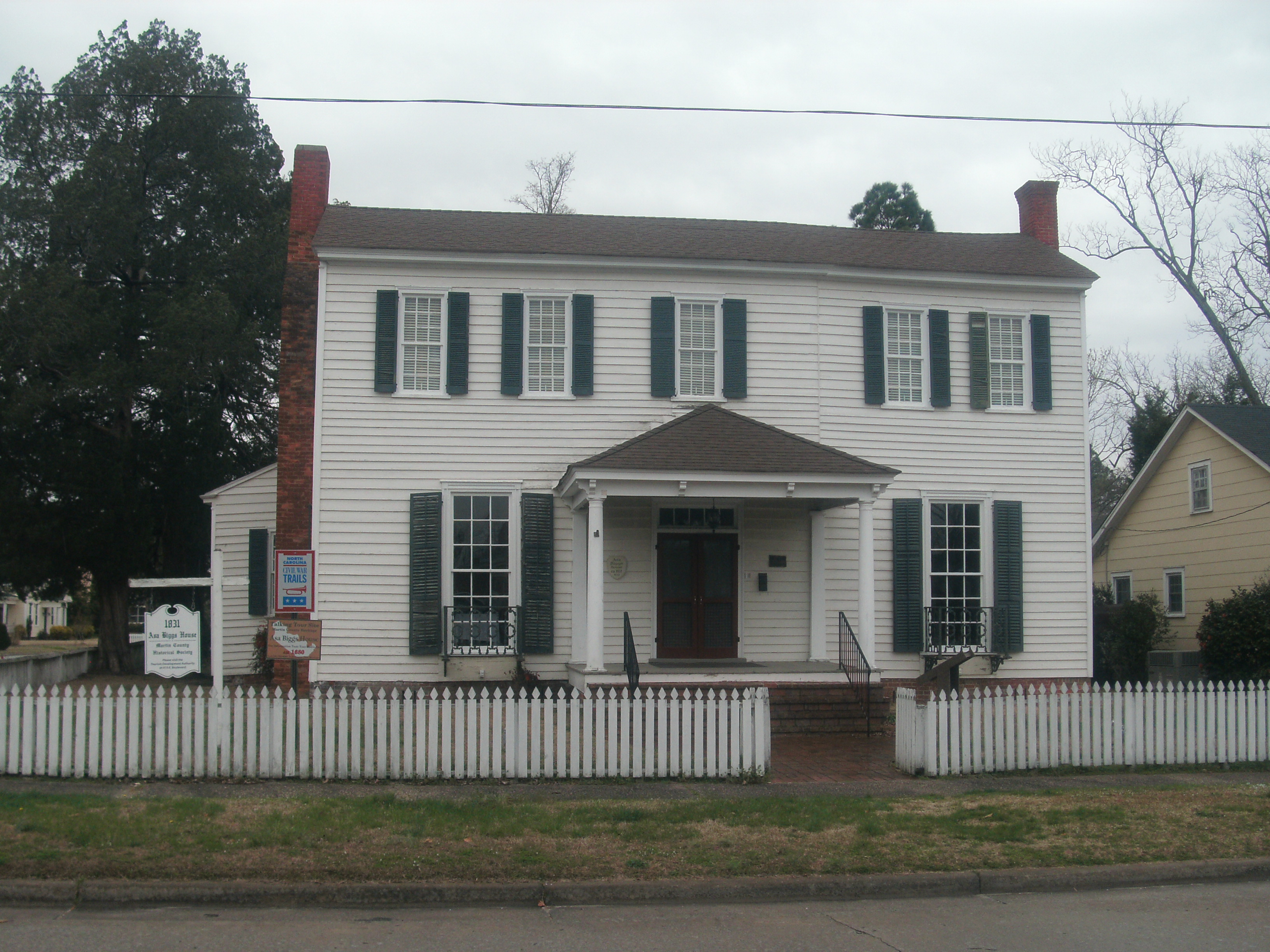 Williamston, North Carolina, March, 2015 GEDSC DIGITAL CAMERA